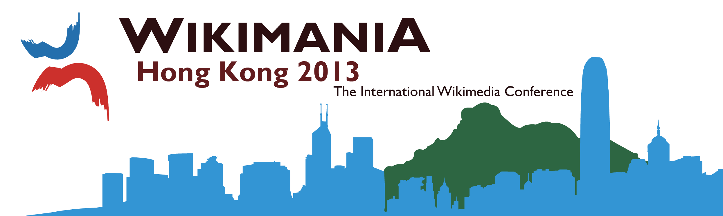 Hong Kong Bidding banner for Wikimania 2013